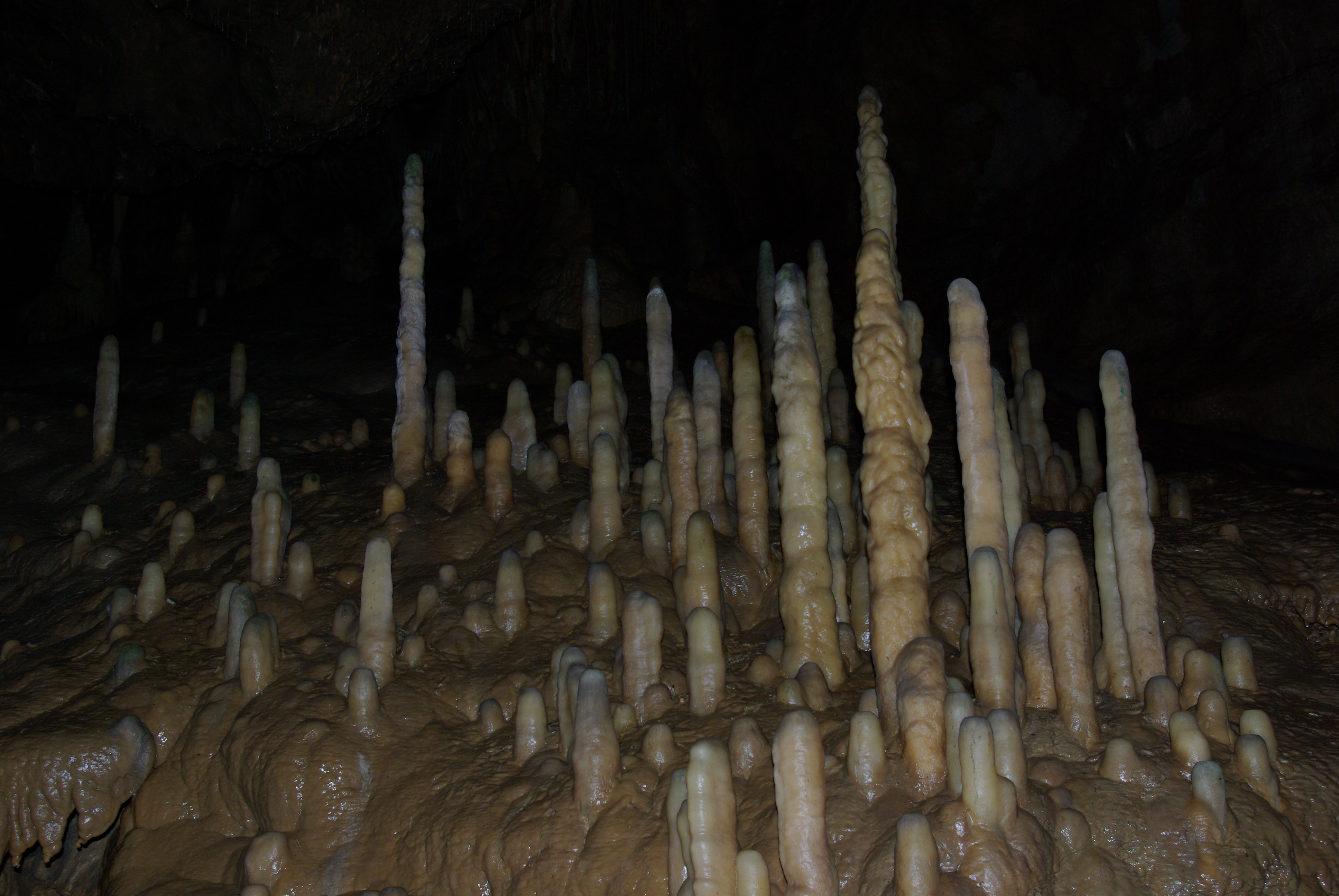 Devil's Cave (near Pottenstein)